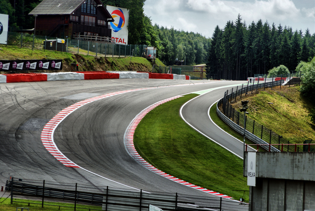 Eau Rouge corner